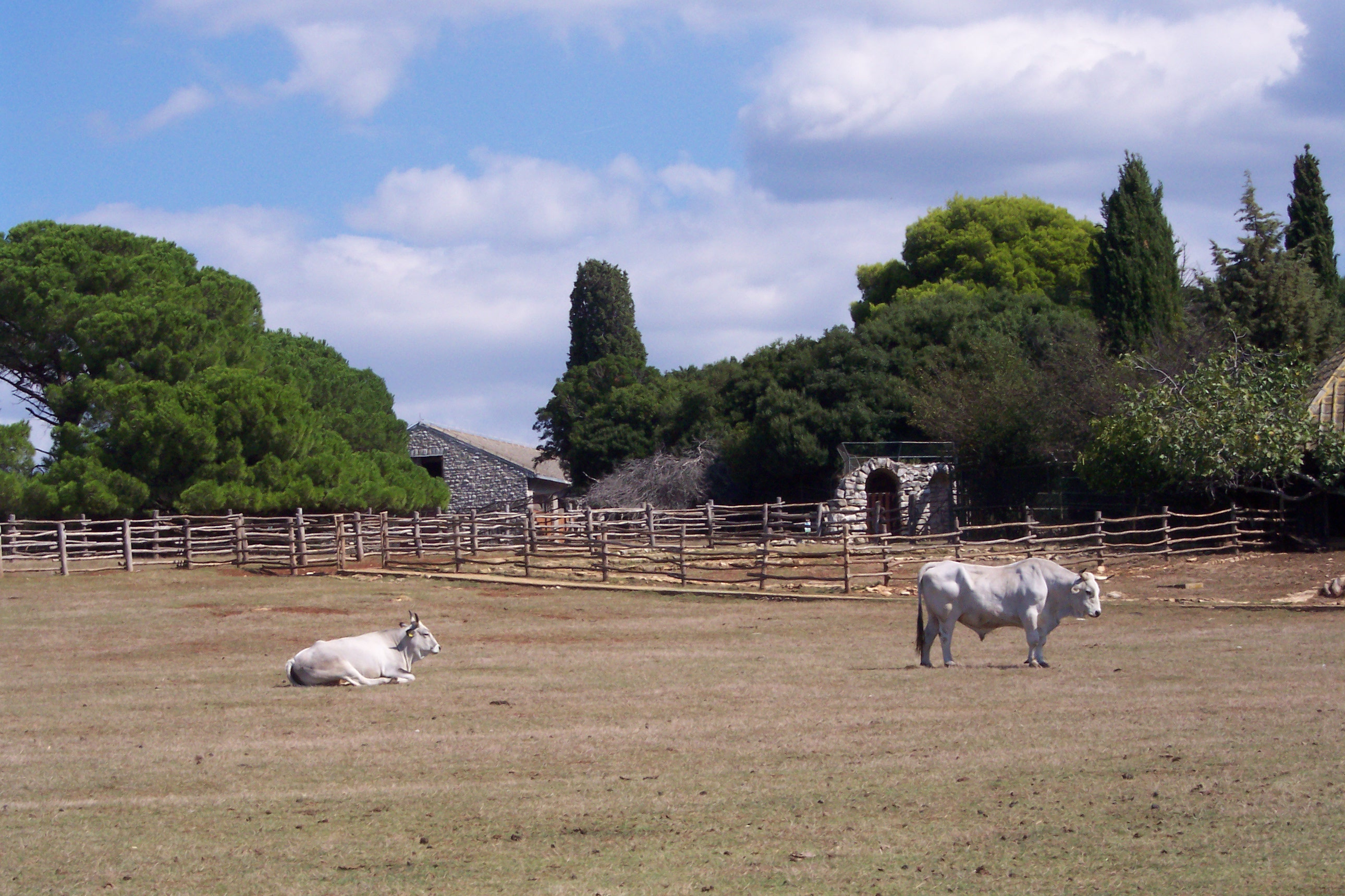 Istrian oxen at the Brionian, Istria